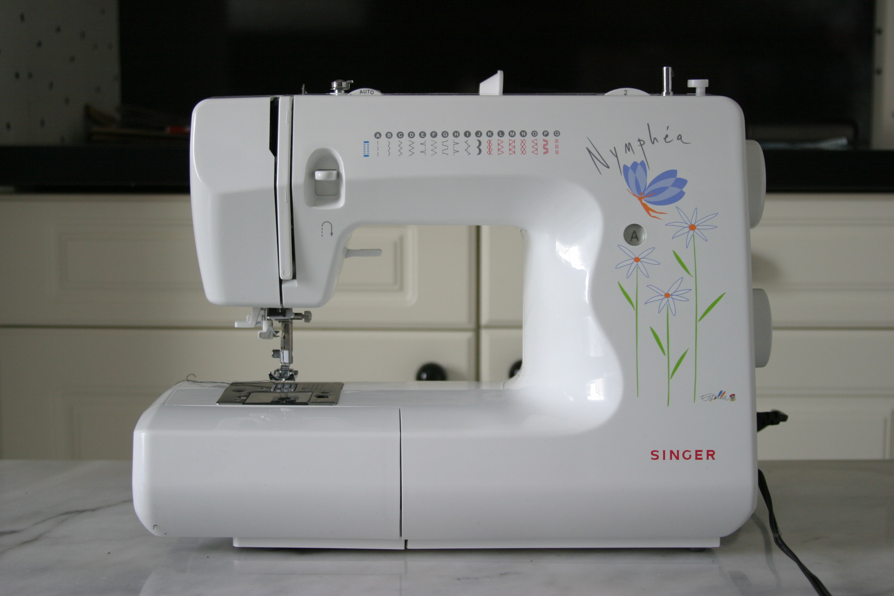 Picture of the Singer Nymphéa 3815A sewing machine. Picture taken on december 2005 by Médéric Boquien.